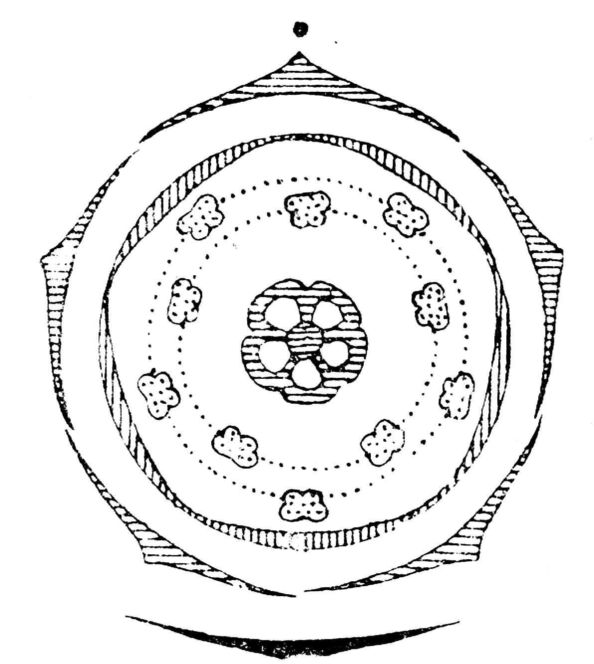 flower diagram of Vaccinium